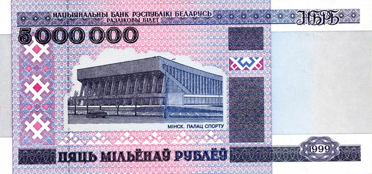 1999 Belarus 5 000 000 rubles bill. Obverse.